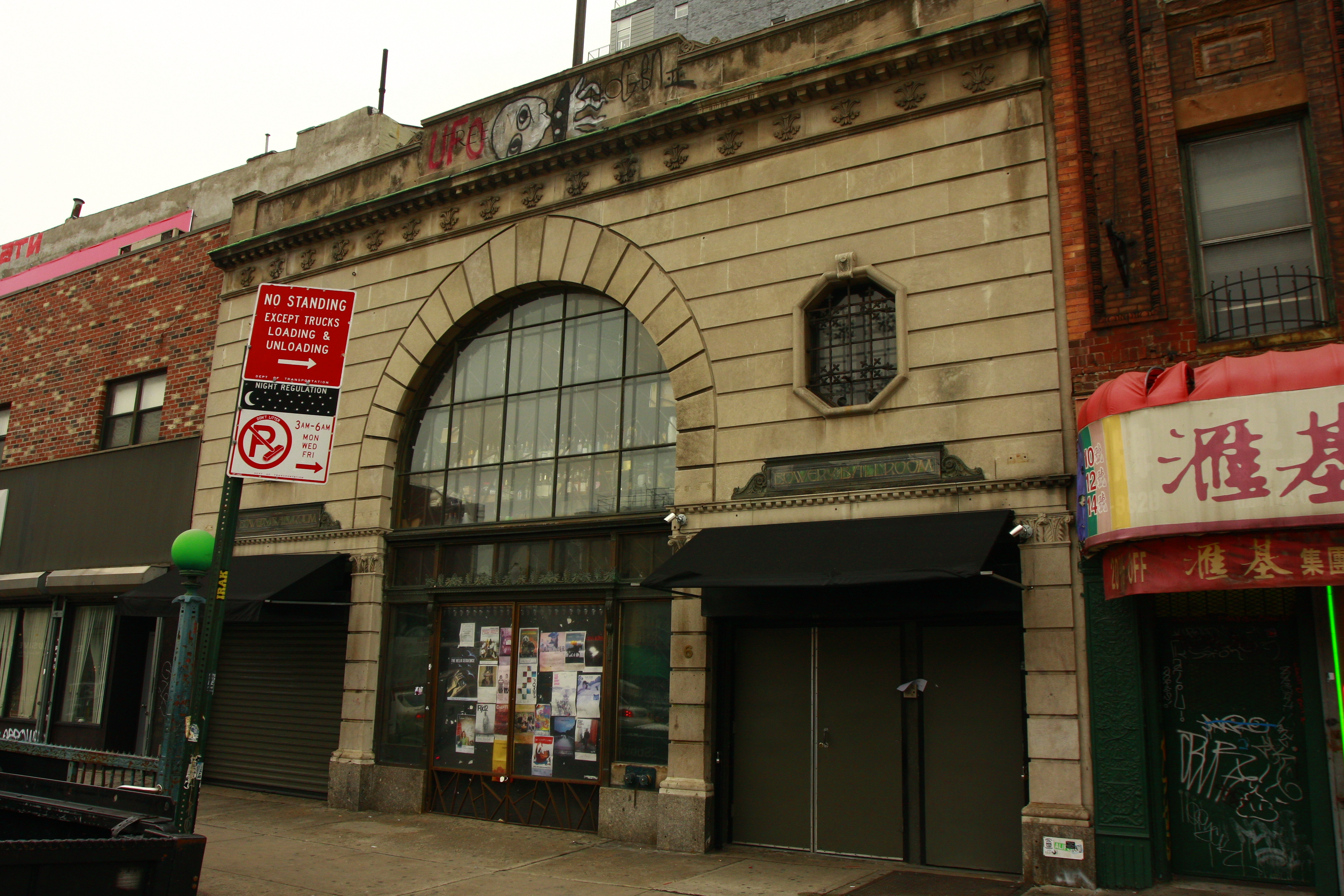 This photo is of Wikipedia Takes Manhattan location code 138, Bowery Ballroom.